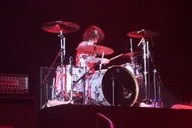 Andy Hurley of Fall Out Boy in concert.